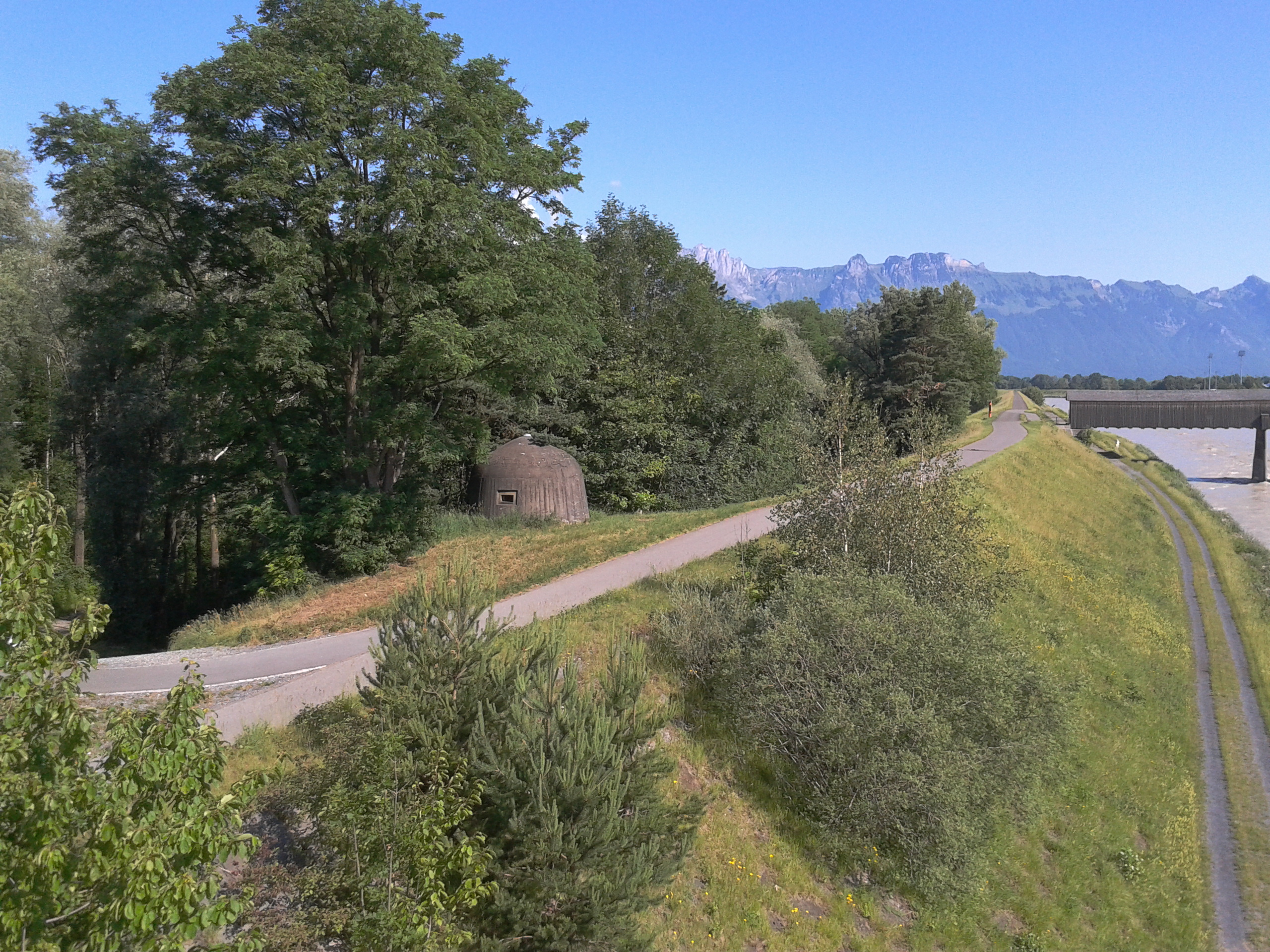 Border crossing Vaduz-Sevelen. Bunker from the time Worldwar II to protect the Swiss border on the Rhine height Liechtenstein / Vaduz - bunkers version with machine guns (weft direction along the Rhine - not to Liechtenstein!). Photographed in Switzerland downriver: Sperrstelle Sevelen Fortress Brigade 13